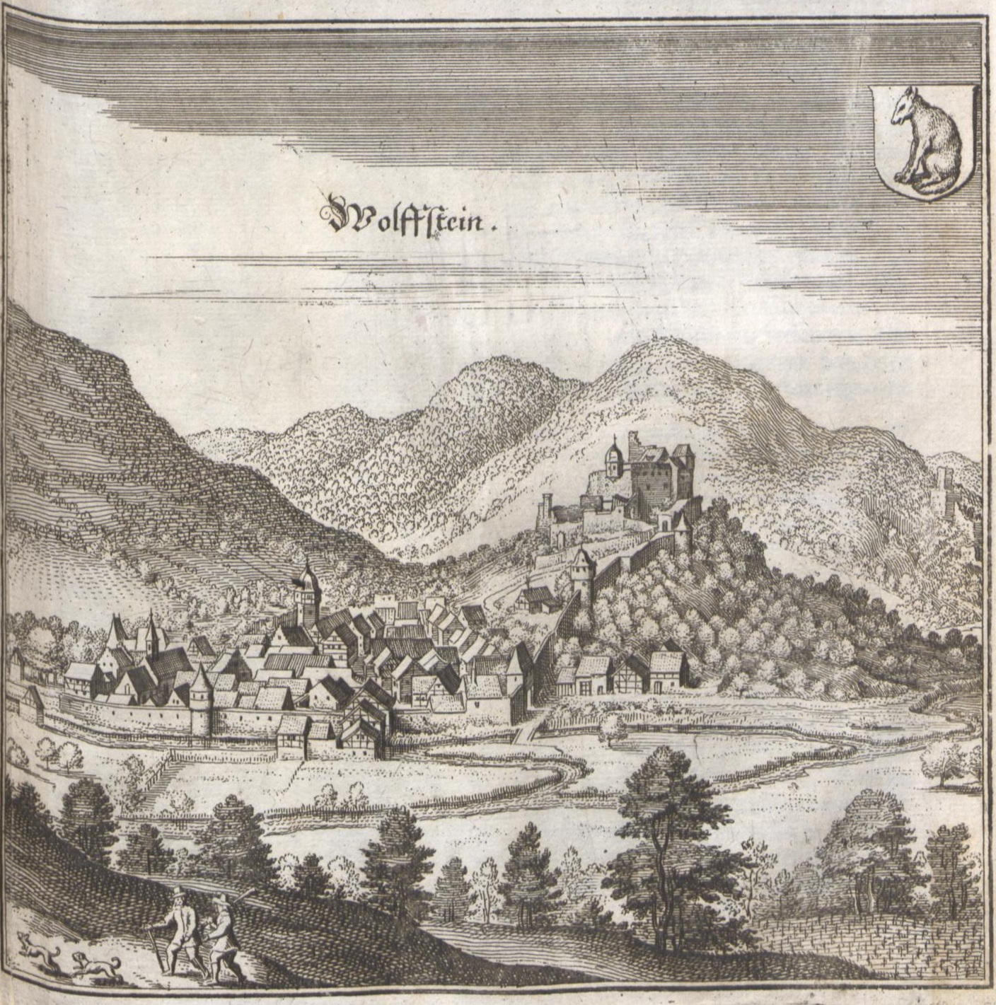 The town of Wolfstein, now in Kusel district, Rhineland-Palatinate, Germany